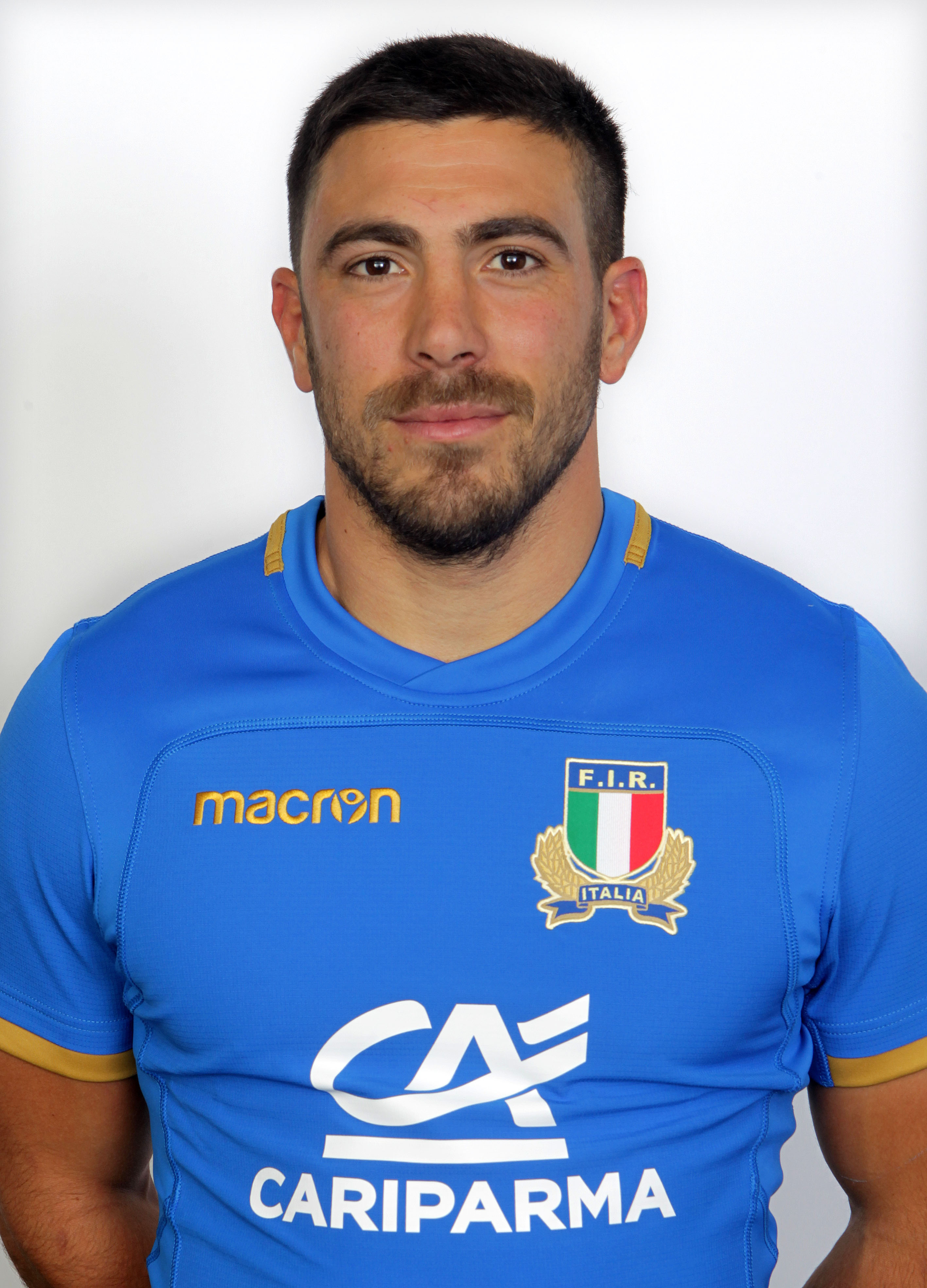 Cariparma Test match 2017, Parma 22/10/2017, raduno Nazionale italiana, profili individuali di atleti e staff, Edoardo GORI, mediano di mischia (Benetton Rugby, 63 caps)